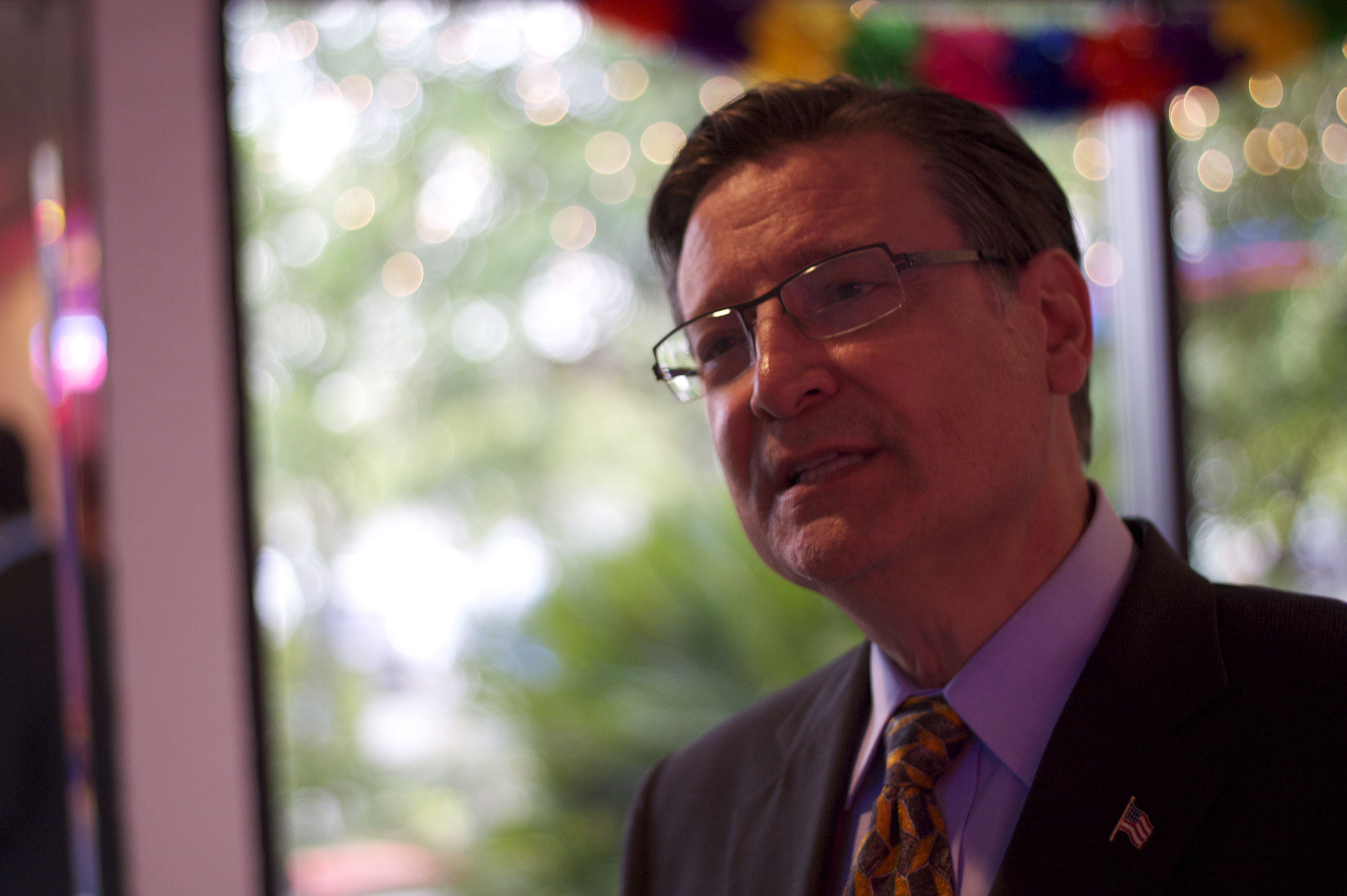 Quico Canseco campaigning at La Fogata restaurant, San Antonio, Texas